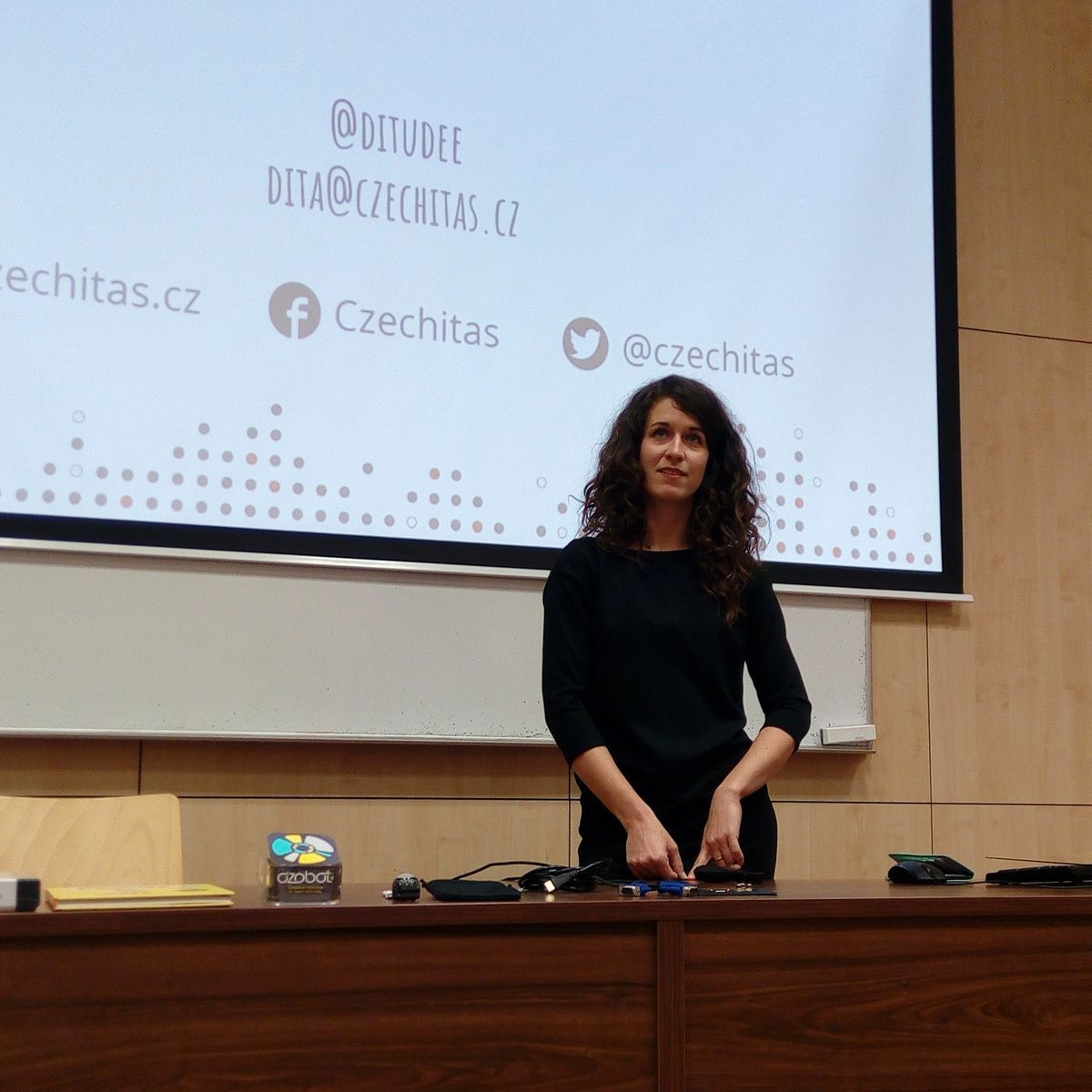 Dita Přikrylová presenting the organization Czechitas at the University of South Bohemia, České Budějovice, on 6 December 2017.